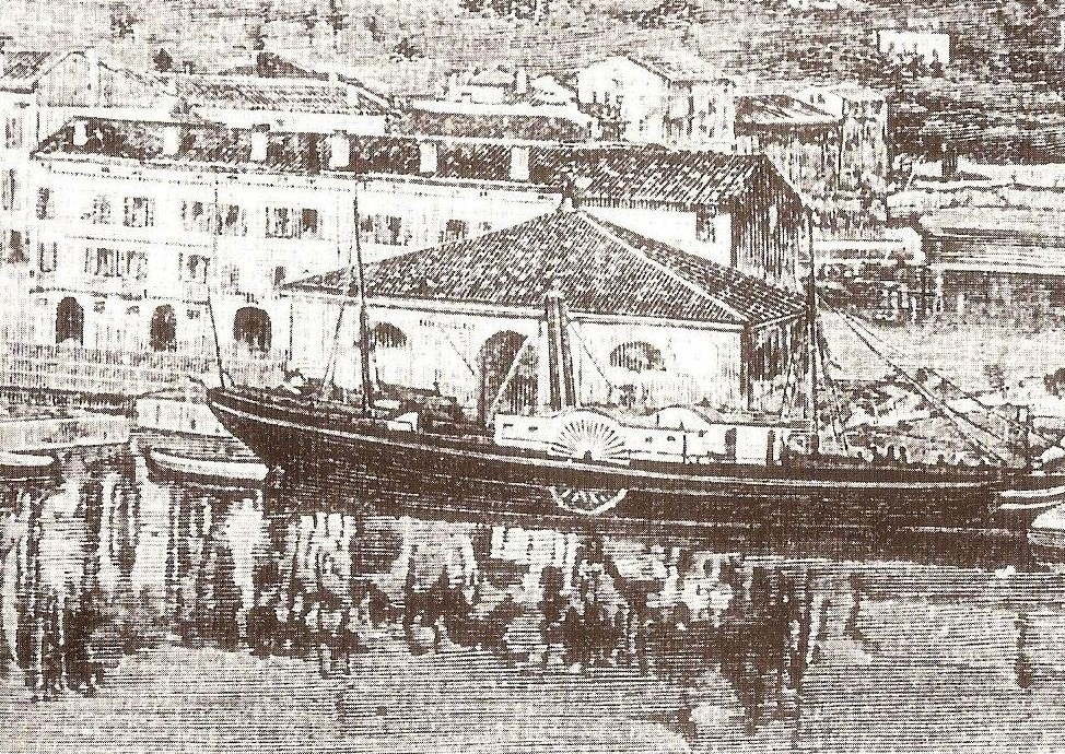 The Imperial-Royal aviso “Hess” of the Austrian-Hungarian navy near to Lake Garda; after 1866 it became an asset of the Royal Italian Navy with the name as “Principe Oddone”